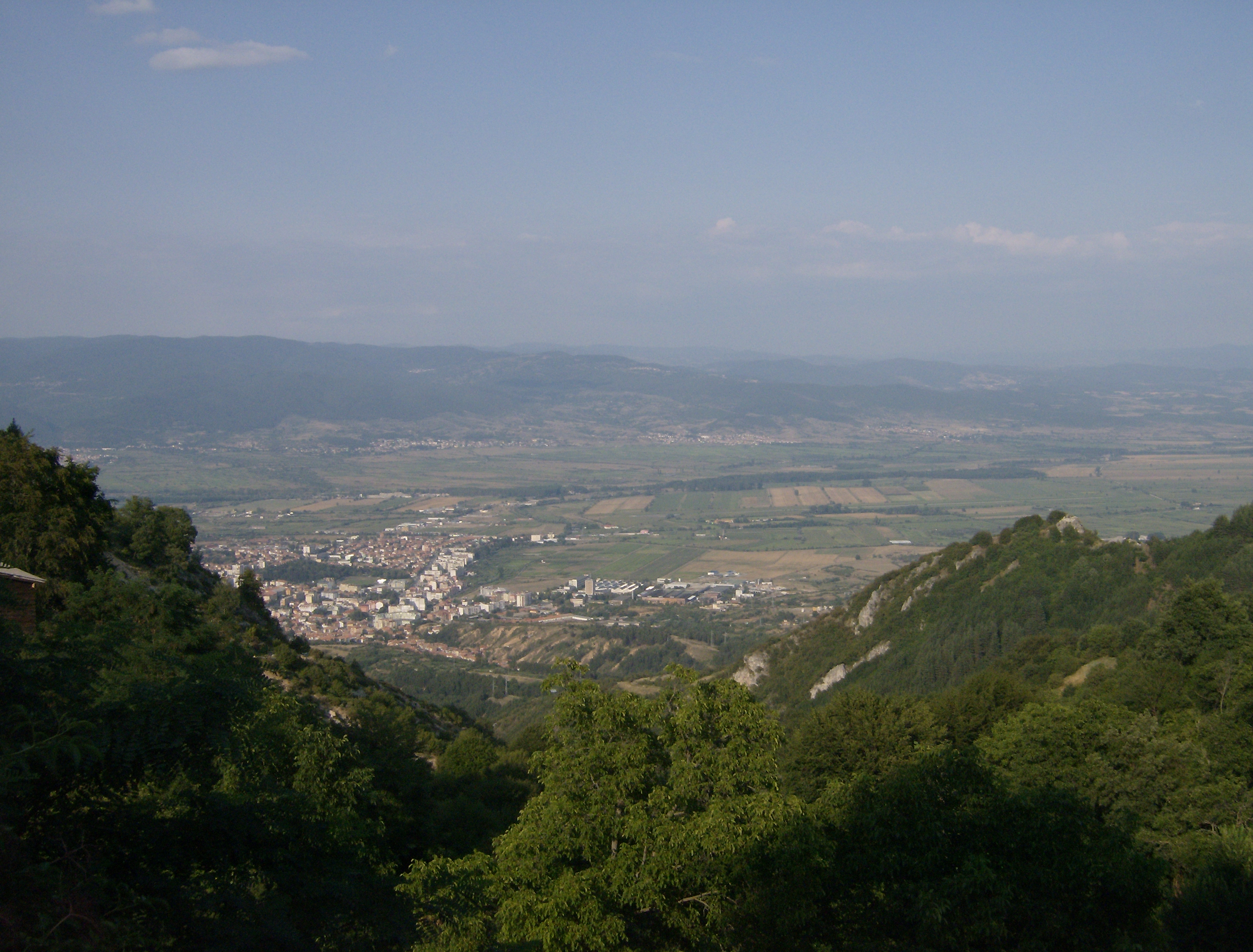 Gotse Delchev valley from Delchevo